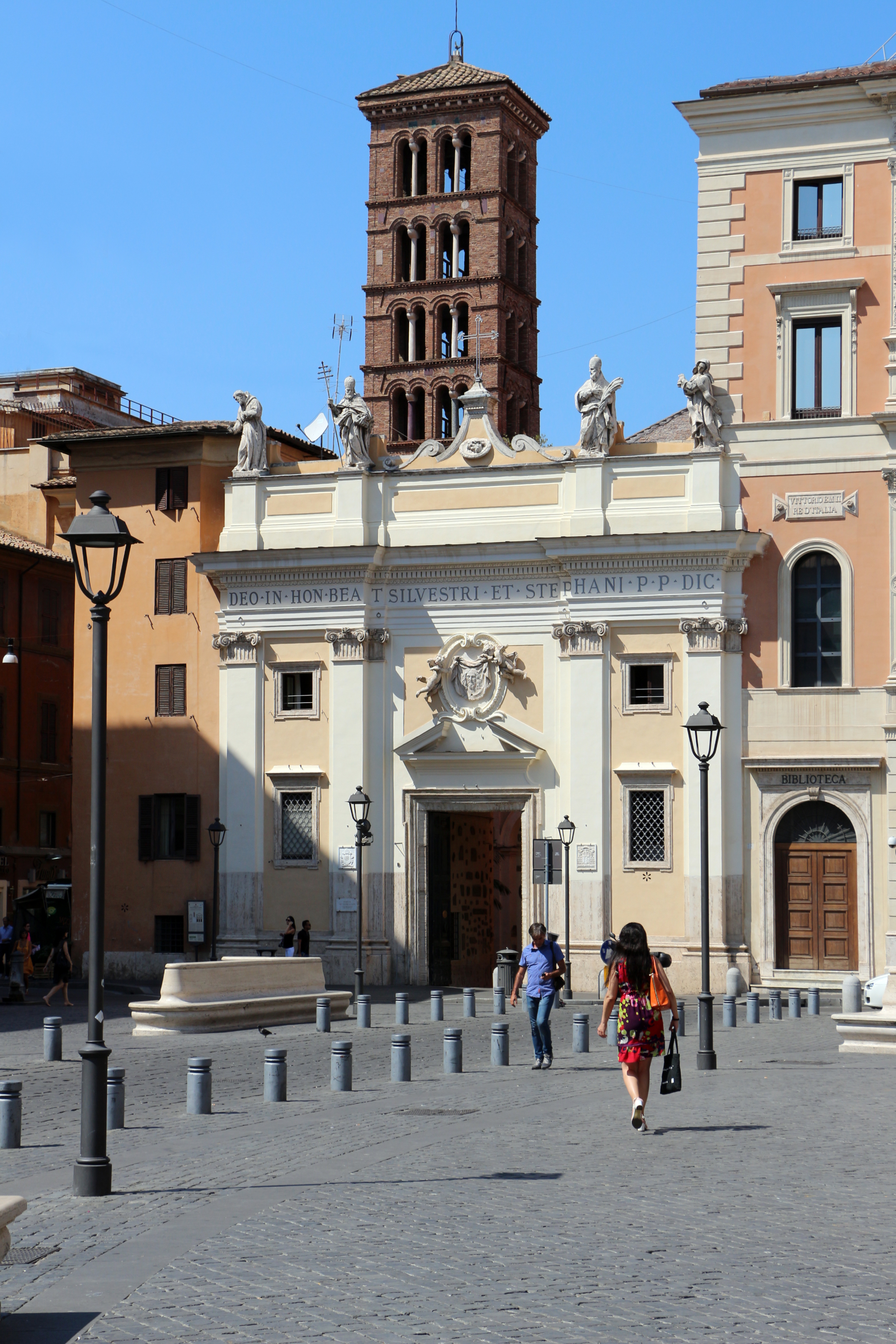 San Silvestro in Capite (Rome) - Inside